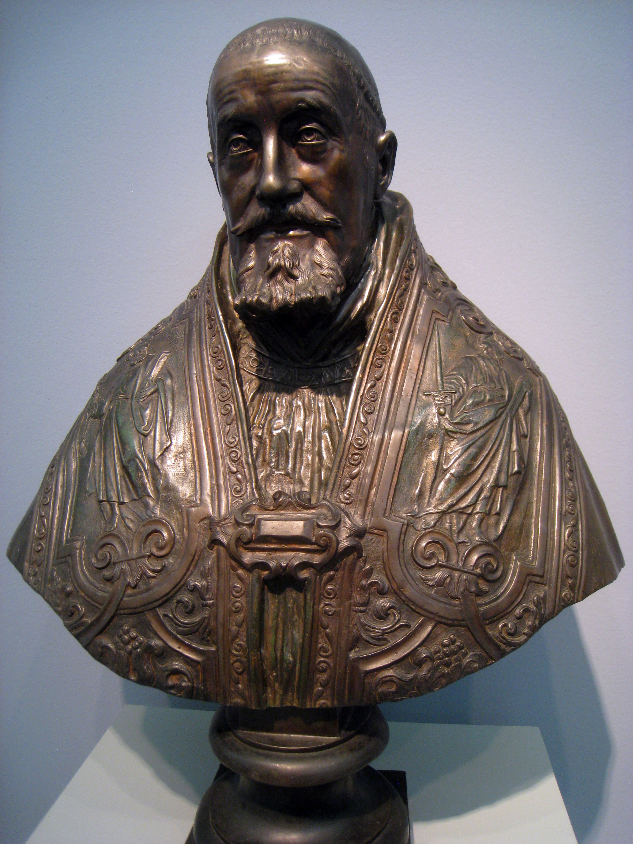 Pope Gregory XV, by Gian Lorenzo Bernini, c. 1621-1622. In the Carnegie Museum of Art, Pittsburgh, Pennsylvania, USA.